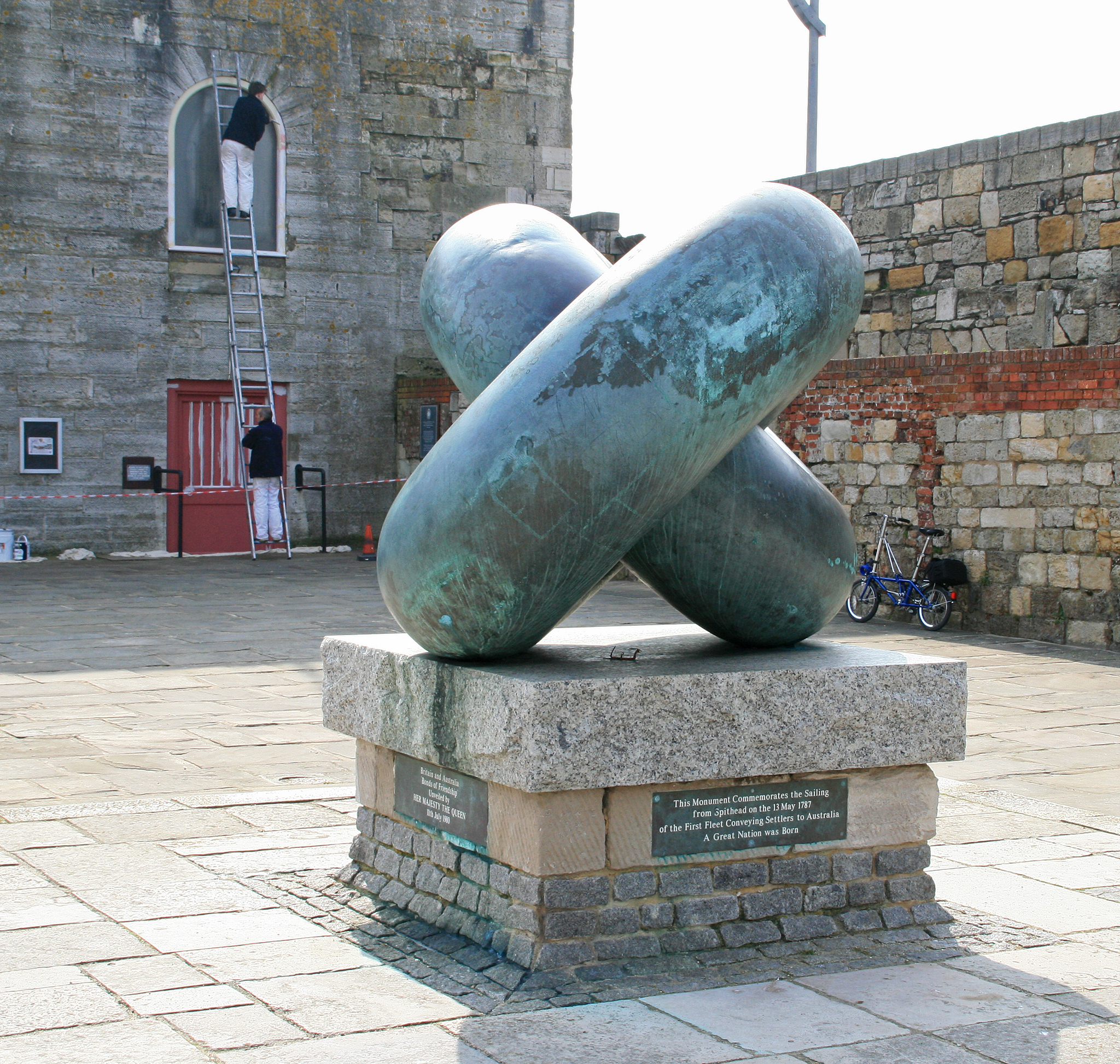 First Fleet Memorial at Portsmouth, UK, from where the First Fleet sailed. This memorial sits on a slab of granite shipped from New South Wales, and matches an identical memorial in NSW. An accompanying wall plaque is located nearby at the entrance to a Sally Port in the ancient fortifications at the entrance to Portsmouth Harbour. Image uploaded by me User:George.Hutchinson from a photograph taken by and supplied by Brian Burnell. Wikipedia editors are reminded that the copyright remains with the photographer, and that the terms of the Creative Commons licence; that allow editors to reuse this image apply to Wikipedia editors also, as they do to other re-users of this image. Breaches of the licence terms are not only unlawful, but are also antisocial, in that breaches discourage photographers from making their images freely available to everyone without payment. Wikipedia re-users are also reminded of the license terms that derivatives of this image should not imply that the adaptation is endorsed or approved by the author or copyright holder. Neither should derivatives be presented as the creation of the author or copyright holder, while clearly stating that the adaptation is a derivative of the original. Attribution online should be in this format Brian Burnell. On the printed page, a simpler form is acceptable - example: "Image: Brian Burnell". Non-Wikipedia users are requested to advise Brian Burnell of its use other than on Wikipedia.